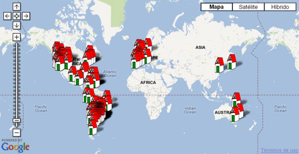 Basque Centers all over the world